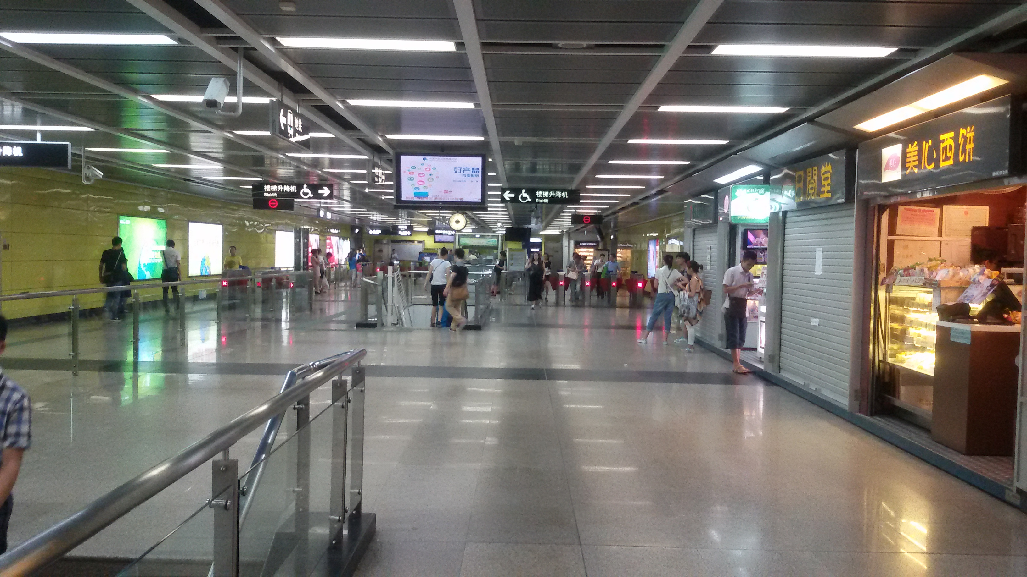 Station Concourse for The 2nd. Workers' Cultural Palace Station, Guangzhou Metro.